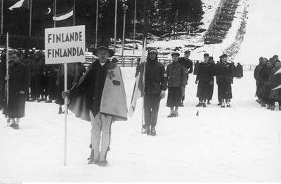 Team Finland - Veli Saarinen with Finnish flag